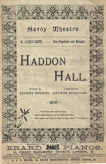 From a souvenir programme in my collection dated 1893